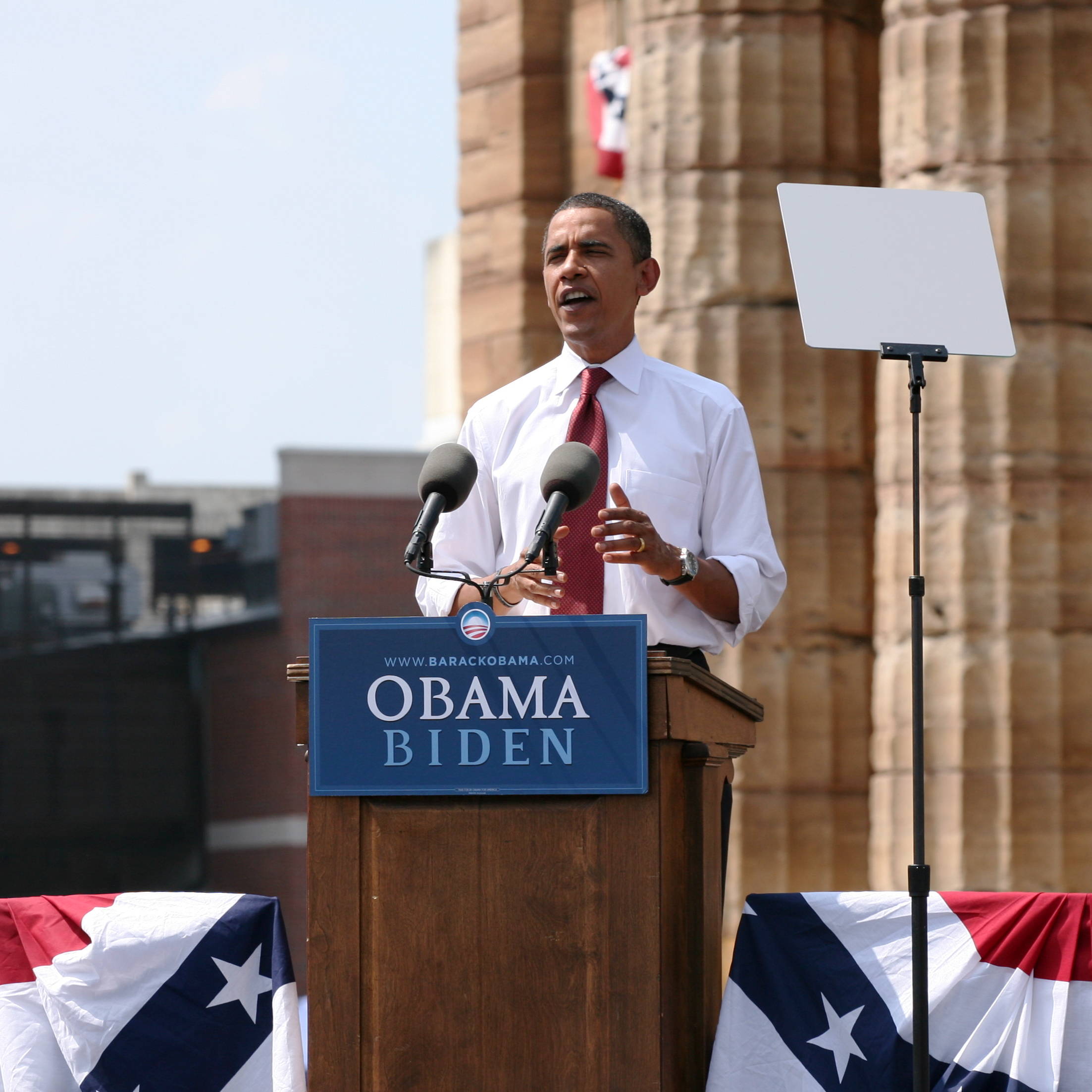 Barack Obama at the first joint rally with Joe Biden as designated VP